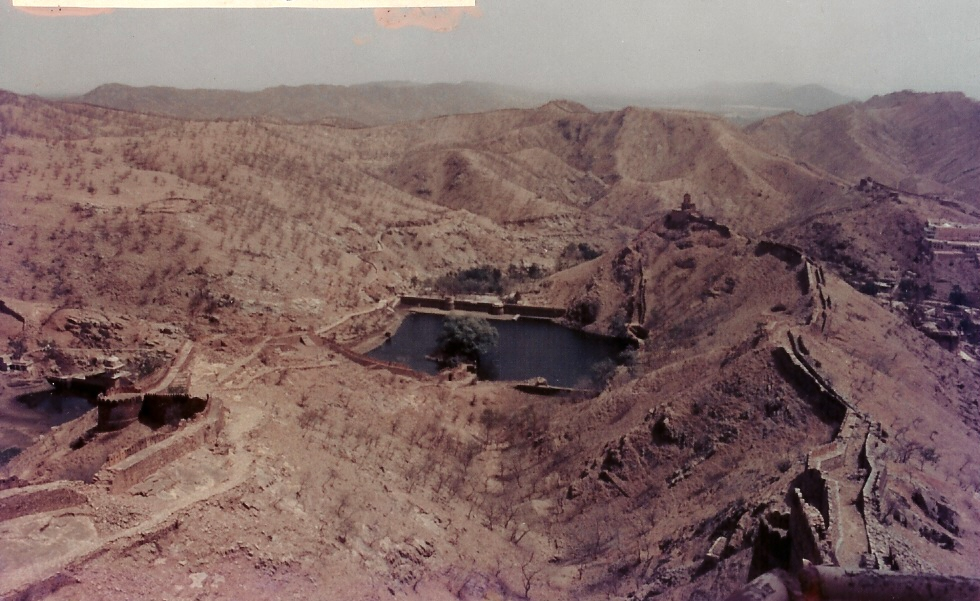 Own pic